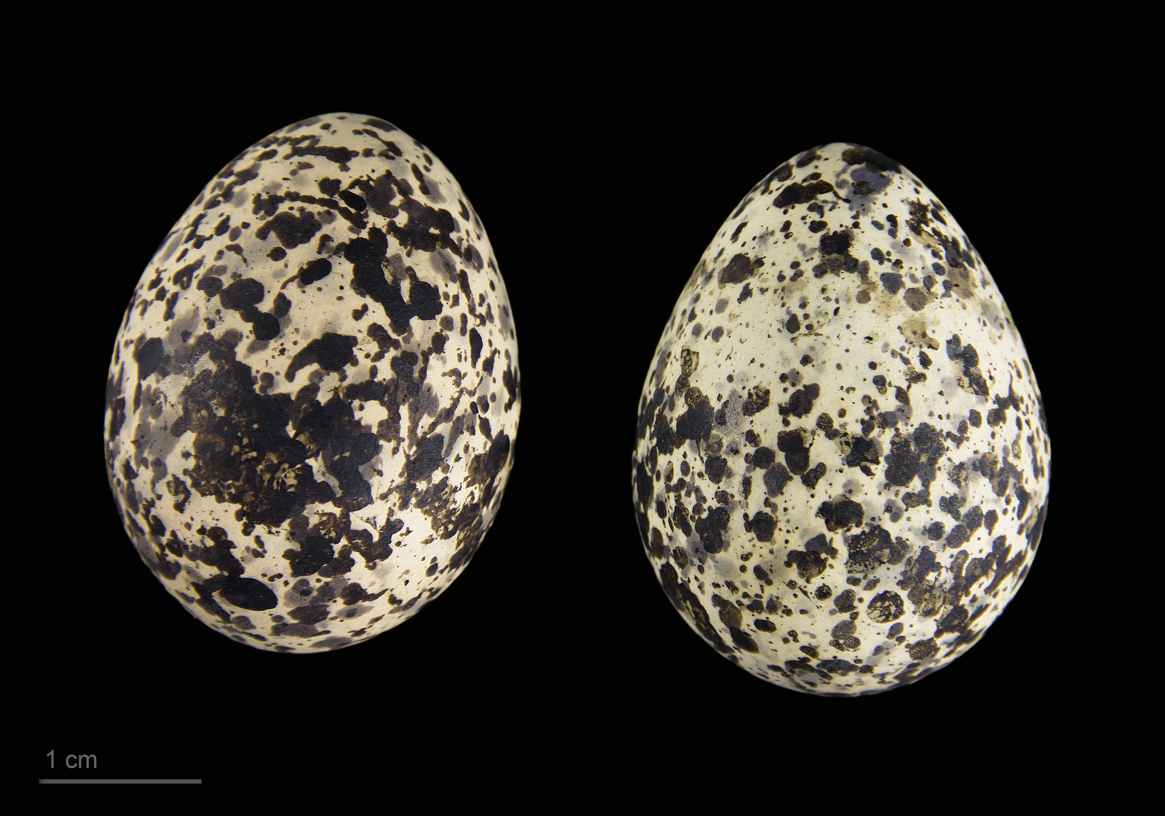 Eggs of black-winged pratincole Two specimens of the same spawn ; collection of Jacques Perrin de Brichambaut.